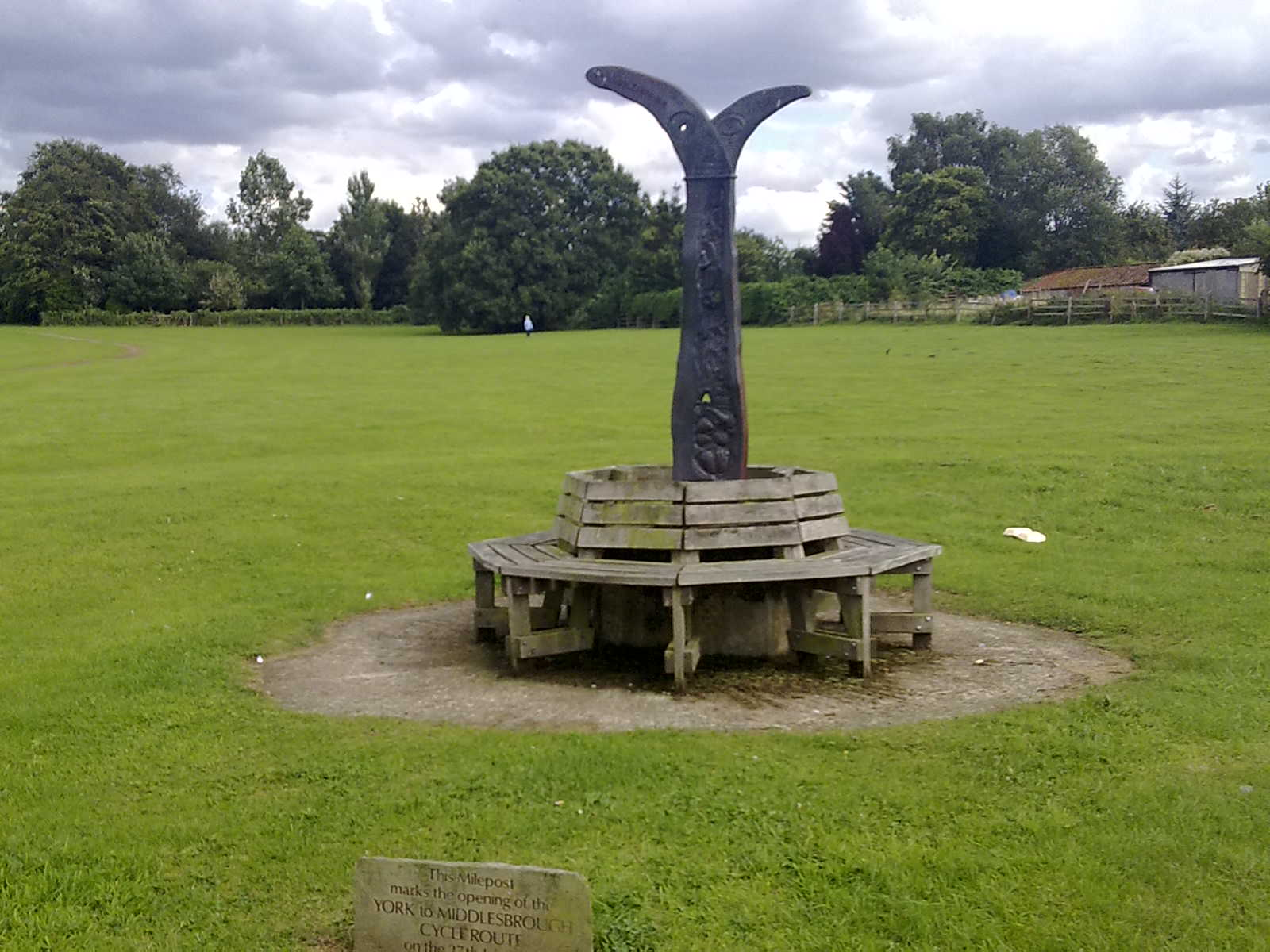 UK National Cycle Network Milepost ref MP207 in Easingwold